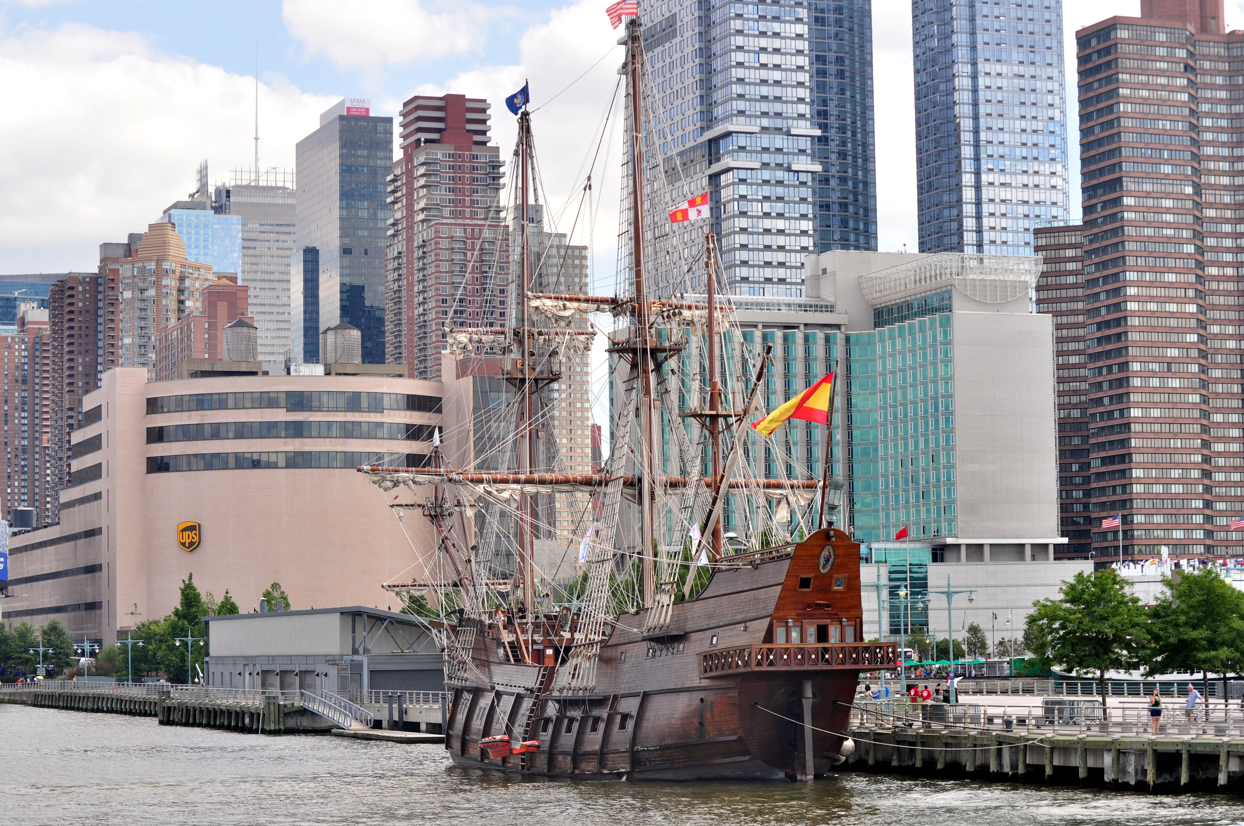 Galeón Andalucía (El Galeón) at Pier 84, Manhattan, New York City, seen from New York Water Taxi on Hudson River.